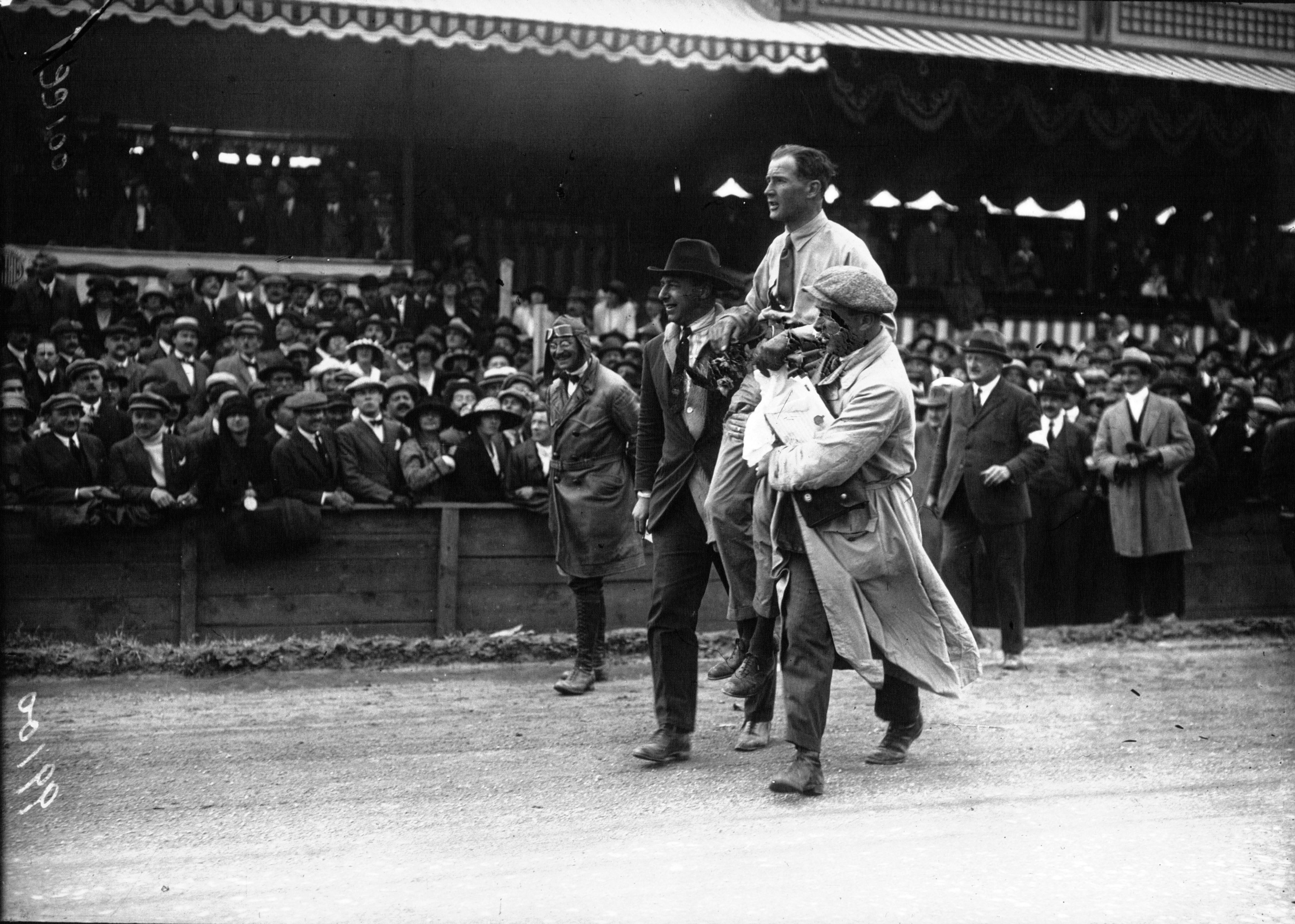 Felice Nazzaro at the 1922 French Grand Prix